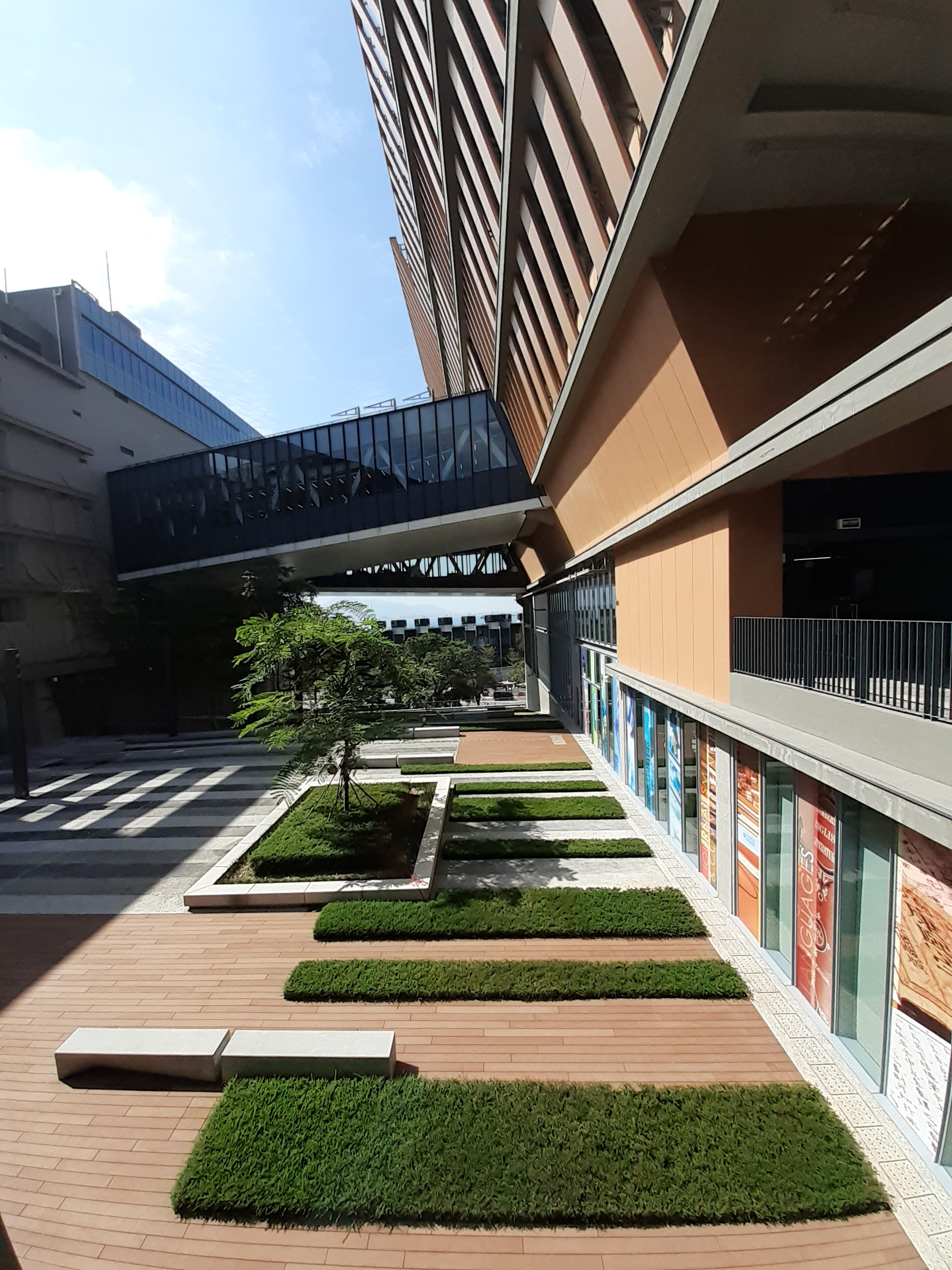 HK 屯門 Tuen Mun 青山公路 80 Peak Castle Road 青山灣段 Peak Castle Bay 珠海學院 Chu Hai College of Higher Education in November 2019